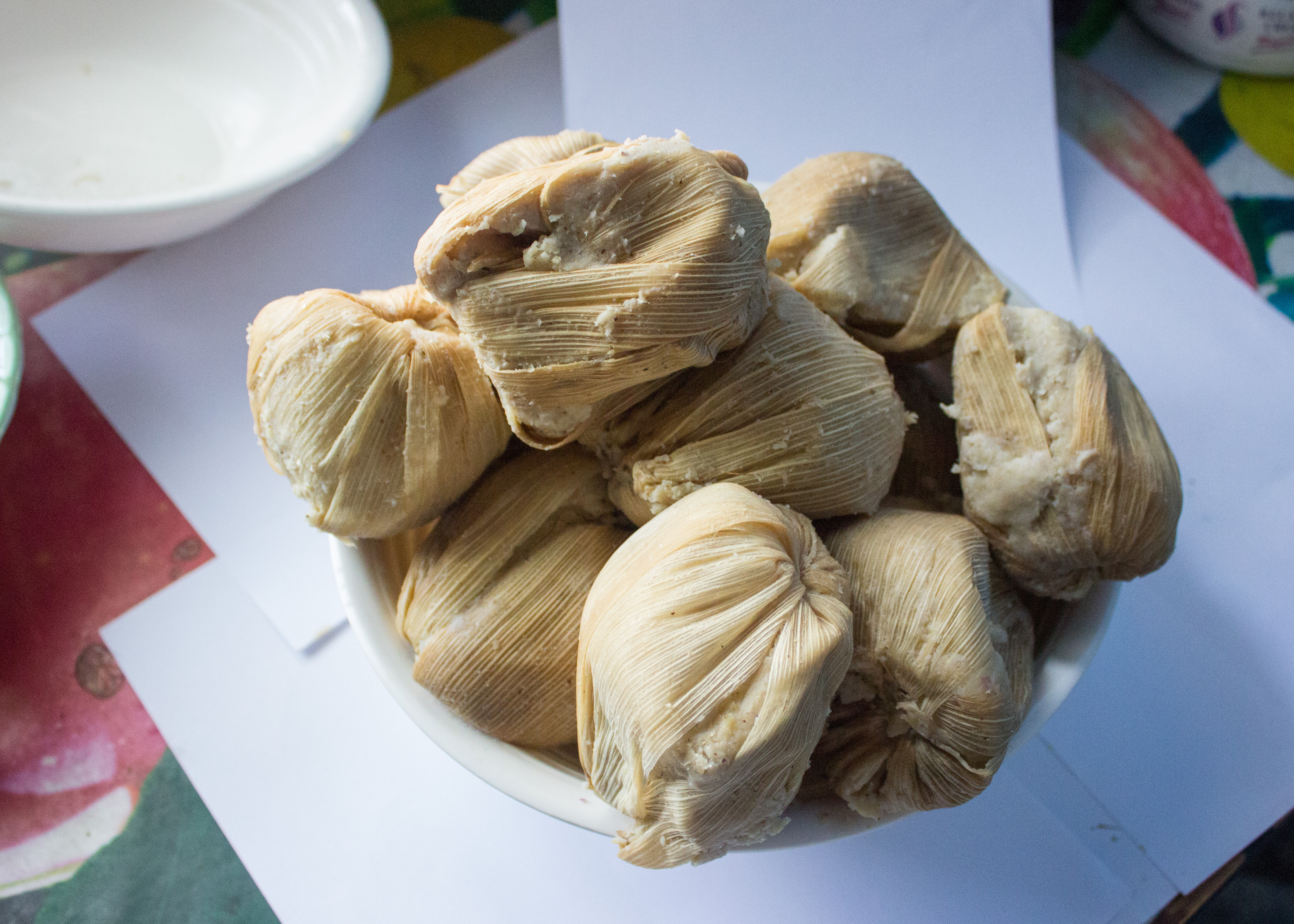 One of the main foods enjoyed by the Ga people. Normally taken with hot pepper and fried fish. This is an image of food from Ghana